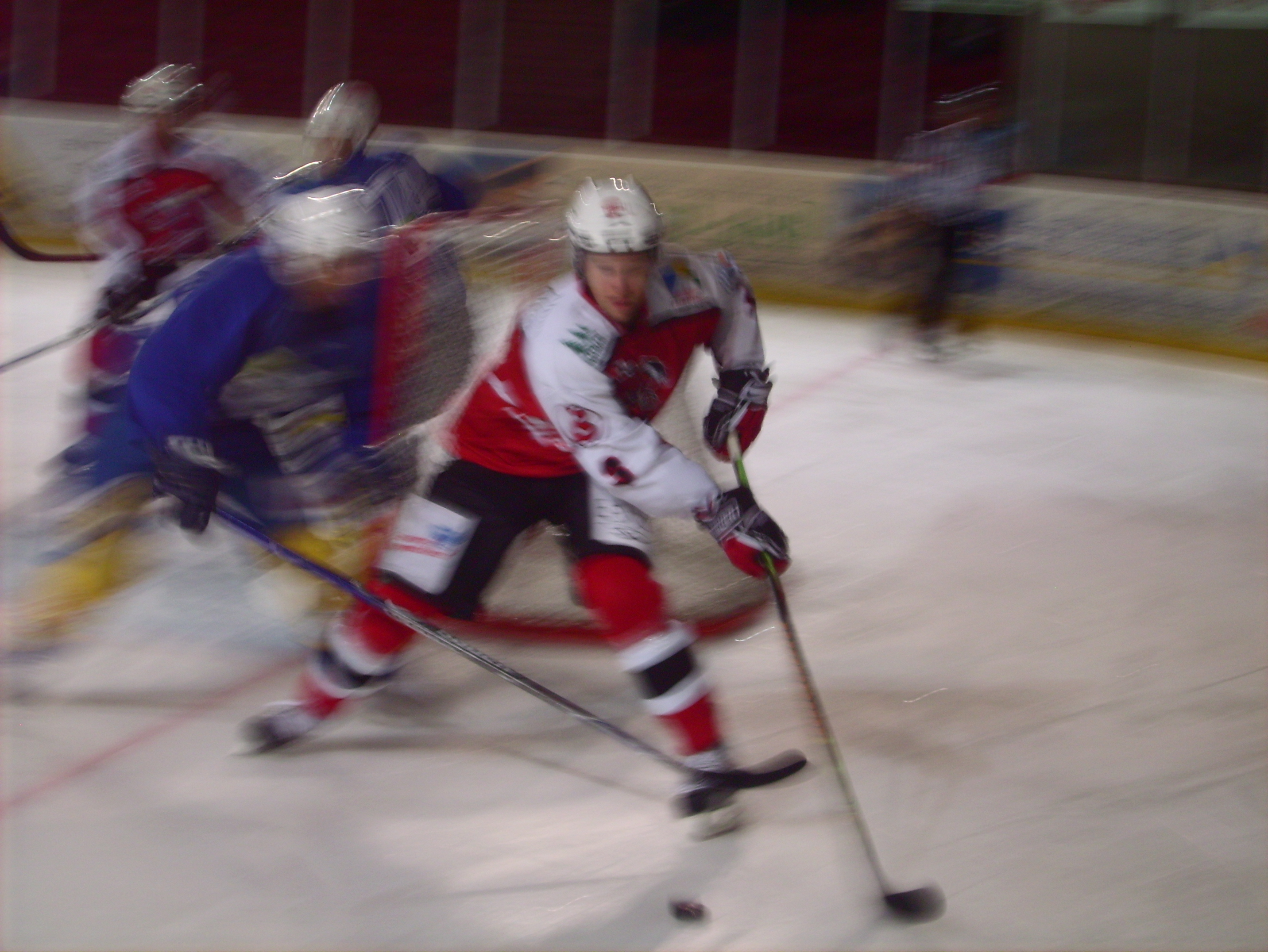 Johan Larsson sweedish ice hockey player with Briançon Diables Rouges. Friendly game against Chamonix, Patinoire René Froger, Briançon, France